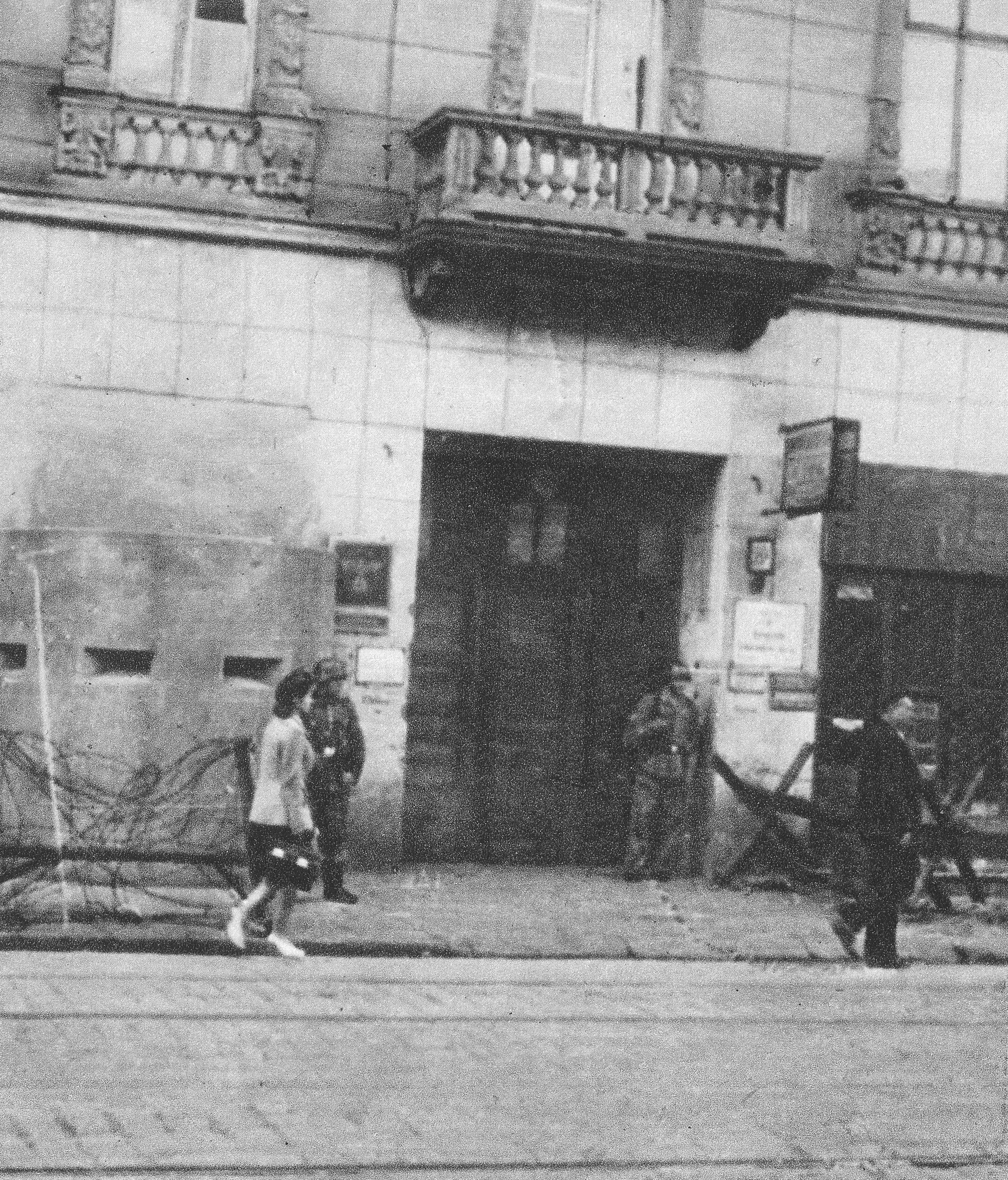 Nordwache at the intersection of Żelazna i Chłodna streets in Warsaw